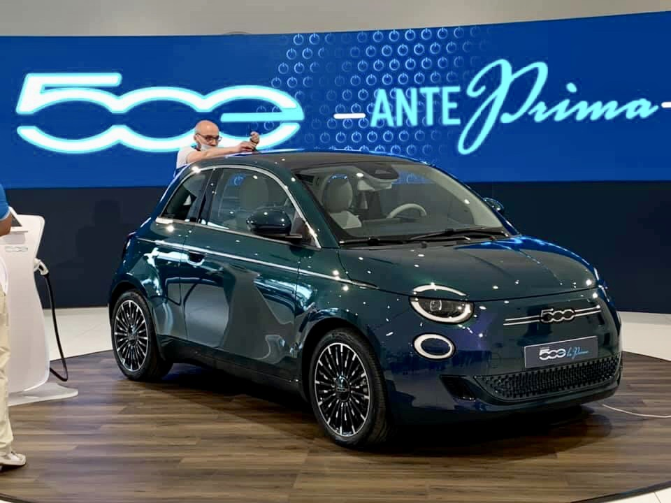 Fiat 500e 2020 La Prima at AntePrima Turin